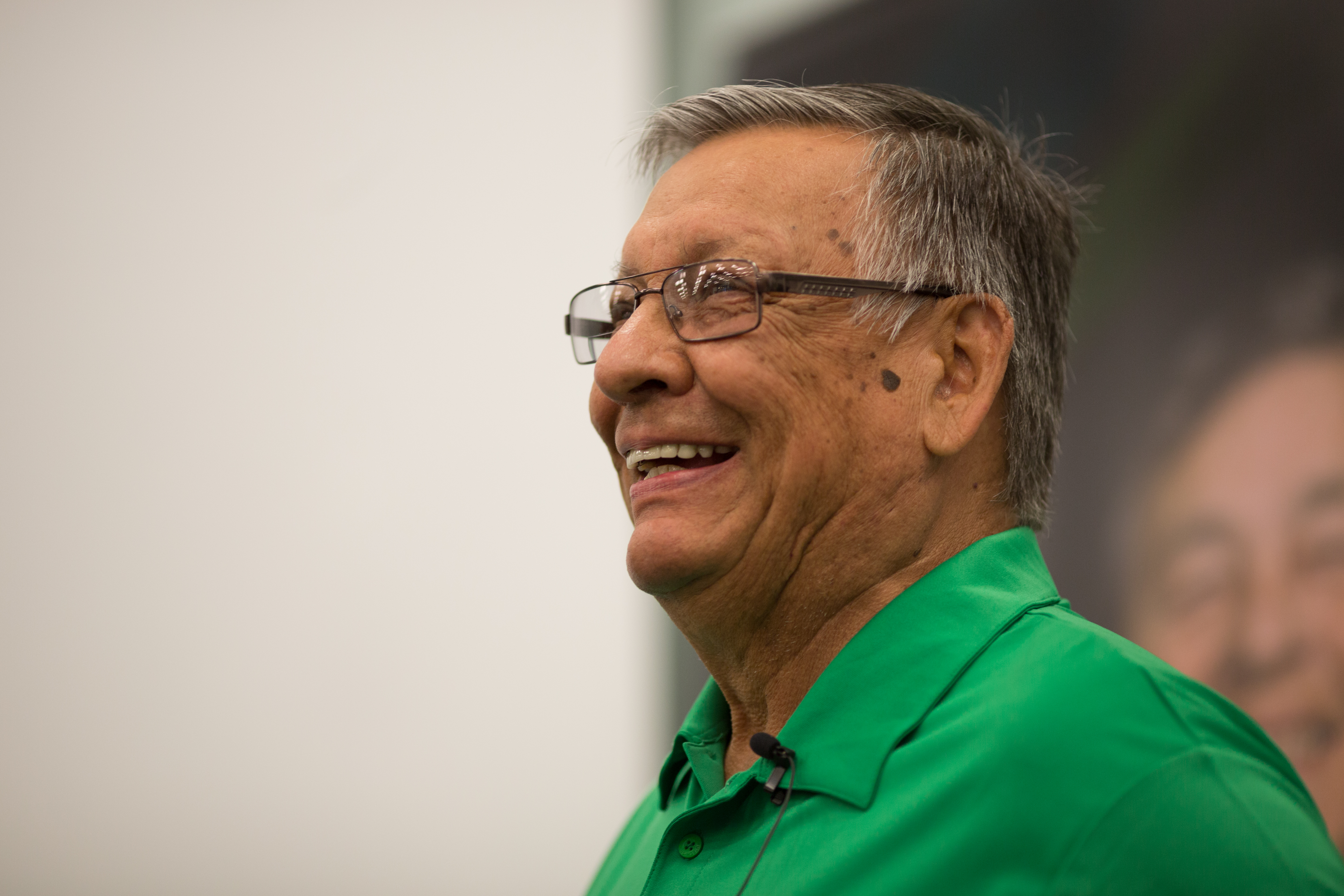 Michael Cachagee at opening ceremonies of the Shingwauk 2015 Gathering and Conference held at Algoma University in August 2015.